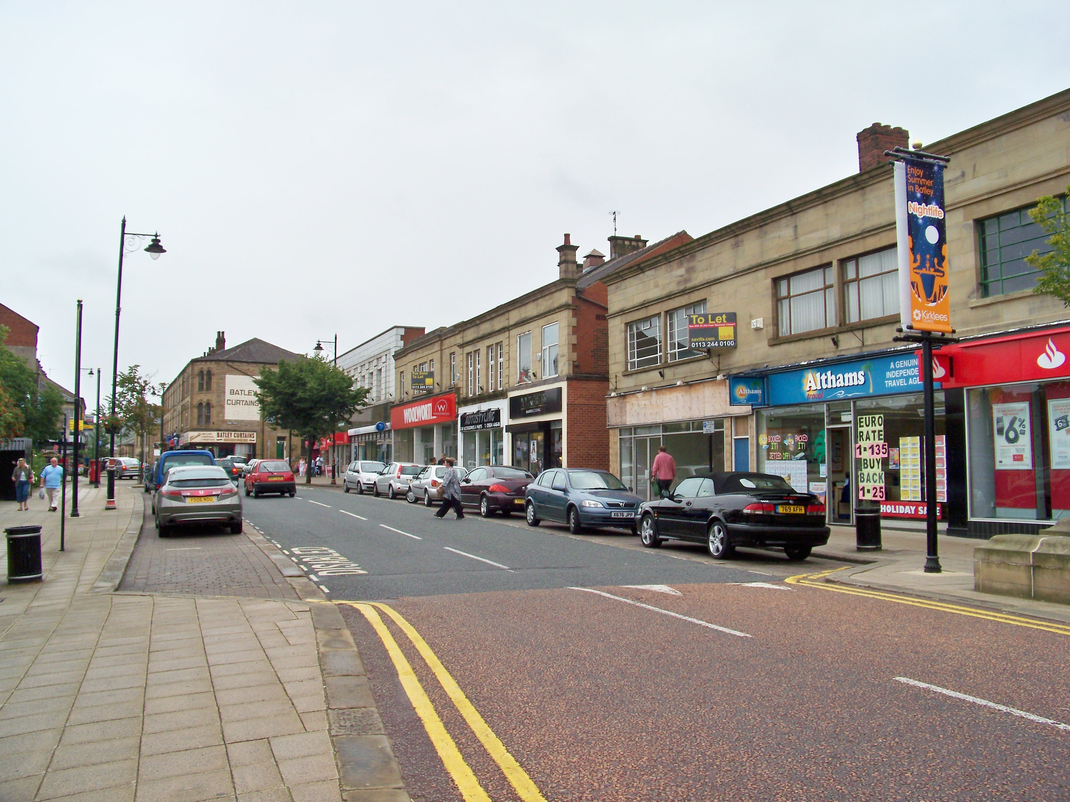 Commercial Street, Batley, West Yorkshire, England. Taken on the afternoon of Wednesday 15th August 2009.